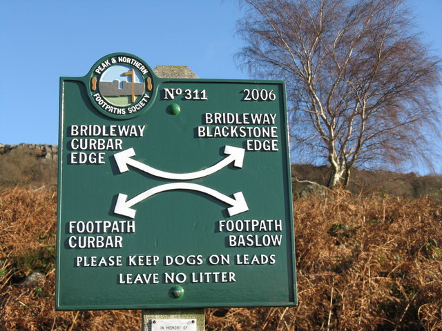 Footpath sign near Baslow A footpath sign, provided by the 'Peak and Northern Footpath Society,' on the moors just above Baslow.